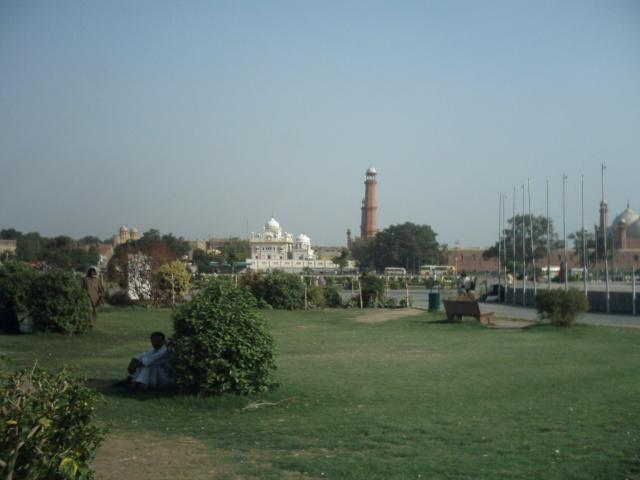 View of Samadhi of Ranjit Singh. Picture taken by Pale blue dot on June 10, 2004.